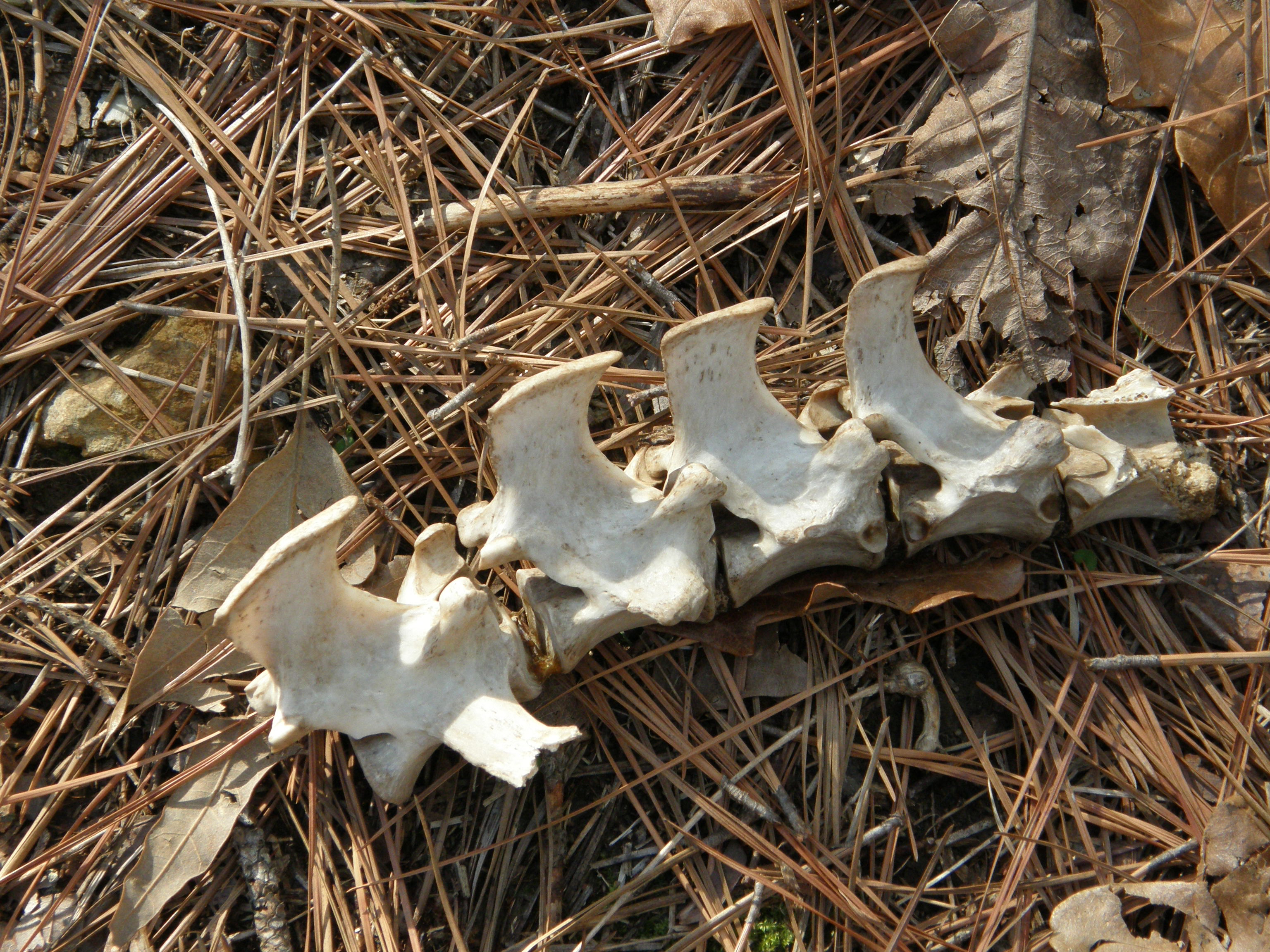 Skeletal animal spine in the woods.